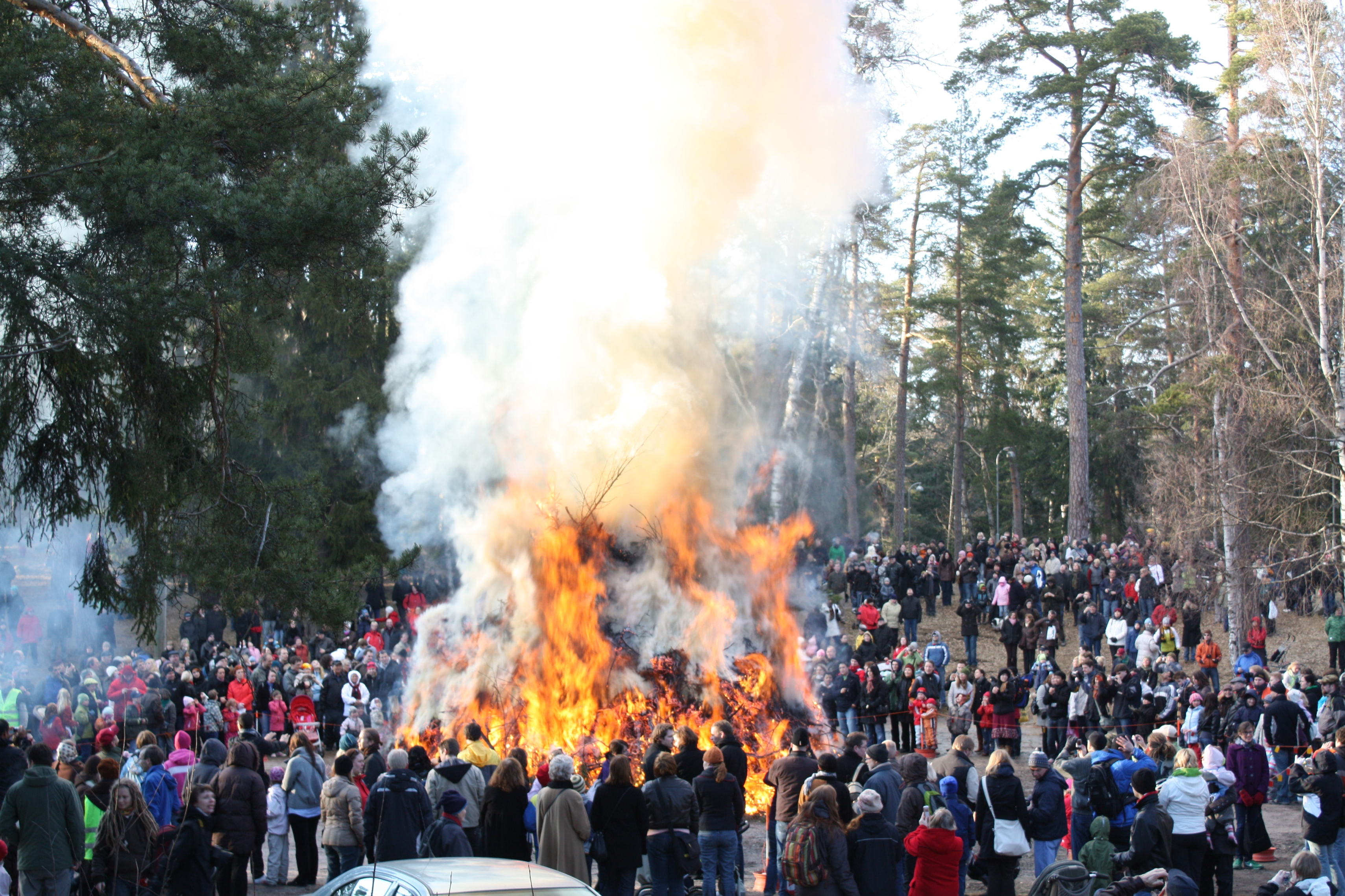 Easter bonfire at Seurasaari Open-Air Museum in Helsinki 2009